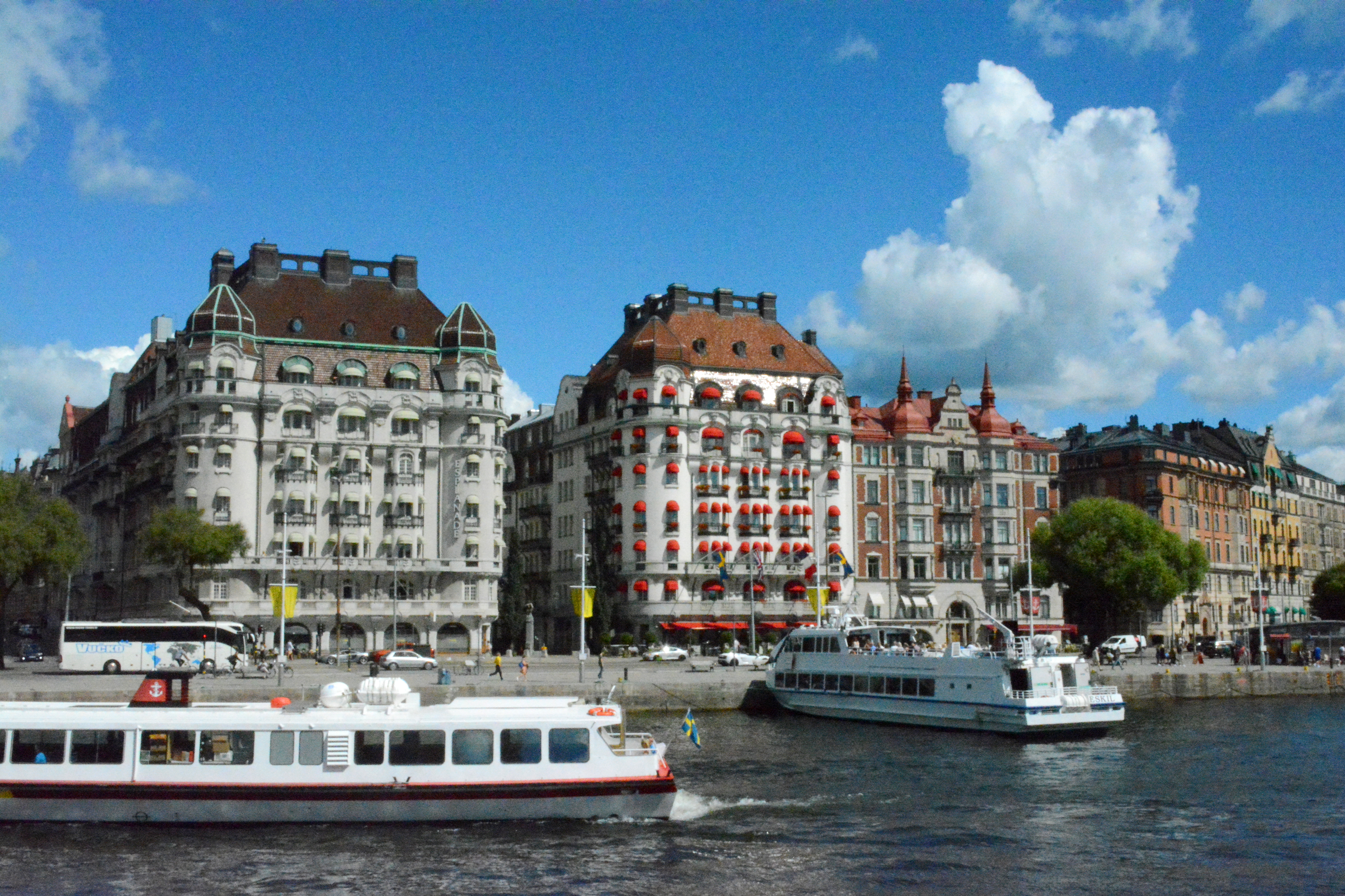 Panoramic view of Strandvägen from Blasieholmen. Completed just in time for the Stockholm World's Fair 1897, Strandvägen quickly became known as one of the most prestigious addresses in Stockholm.